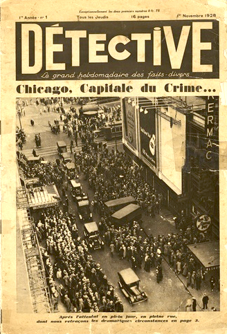 Front cover of Détective, issue 01, Novembre 1st, 1928, Paris, France. Publisher : Gallimard. Above the central photo : Chicago, capitale du crime.